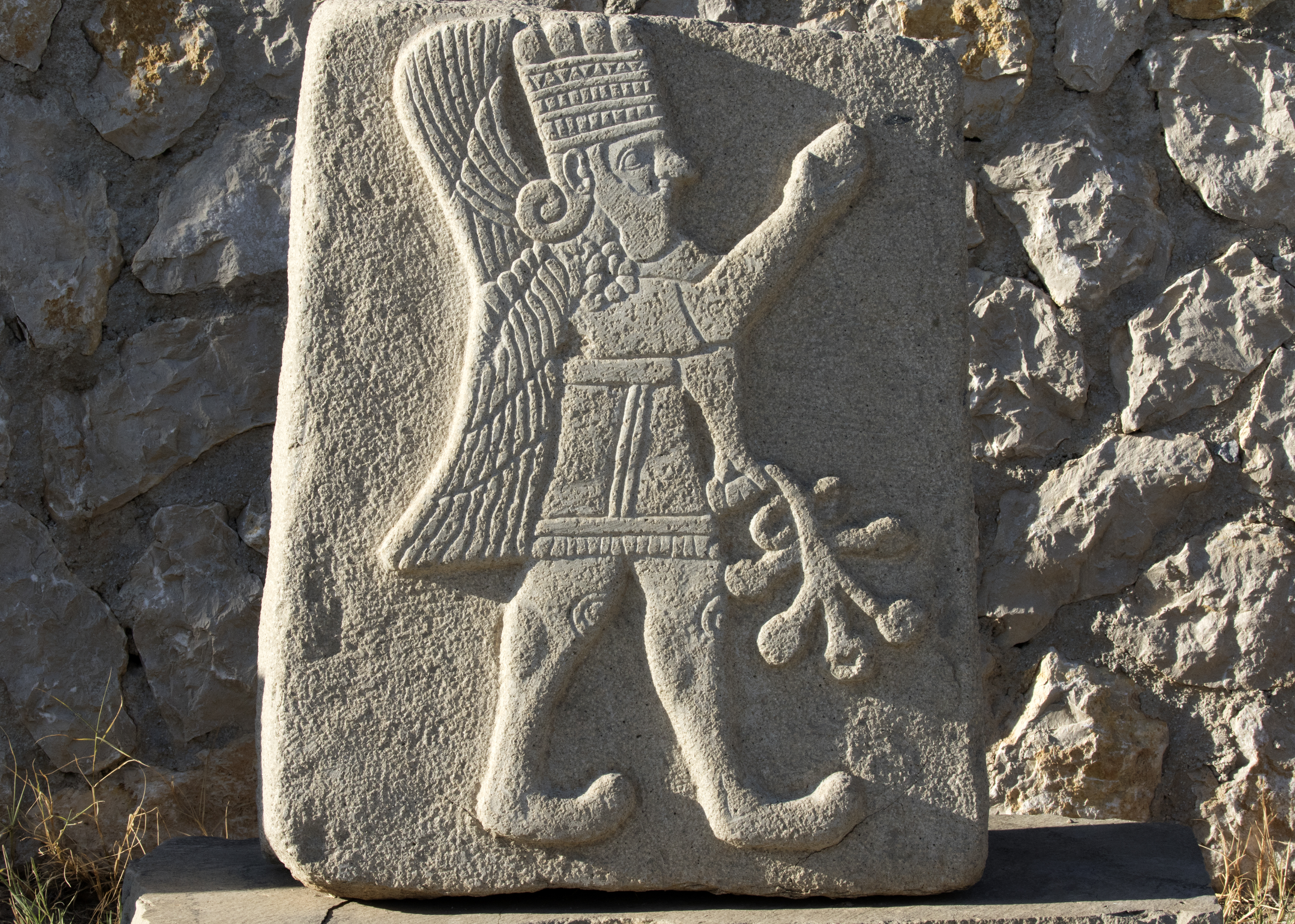 Stone carvings at the entrance of Arslantepe Ruins area. Battalgazi, Malatya - Turkey.